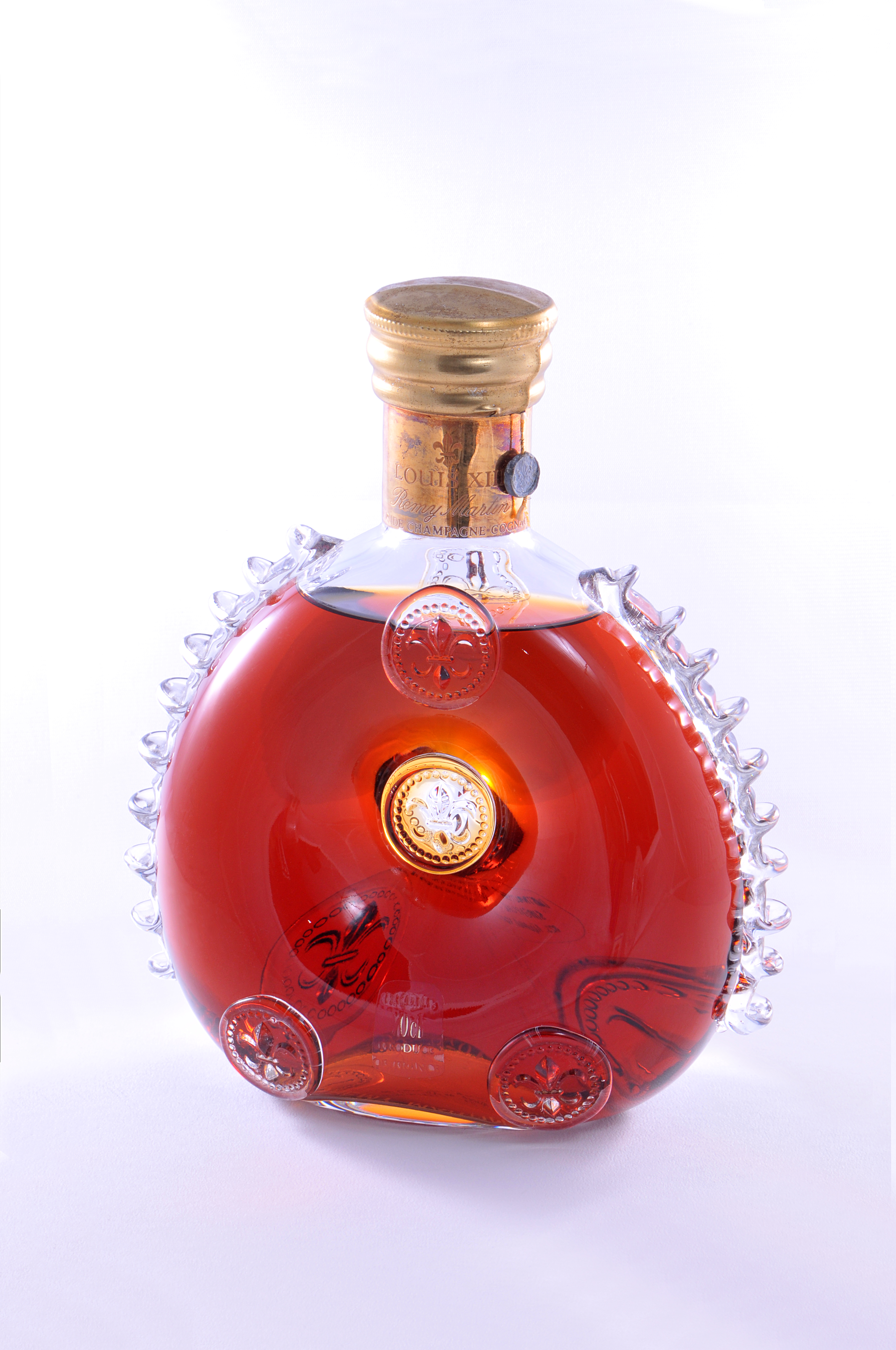 Louis XIII de Rémy Martin Grande Champagne Cognac 70cl 1982 Camera: Nikon D300 F16, 1/125", ISO200 License on Flickr (2010-12-28): CC-BY-2.0 Flickr tags: D300, 105micro